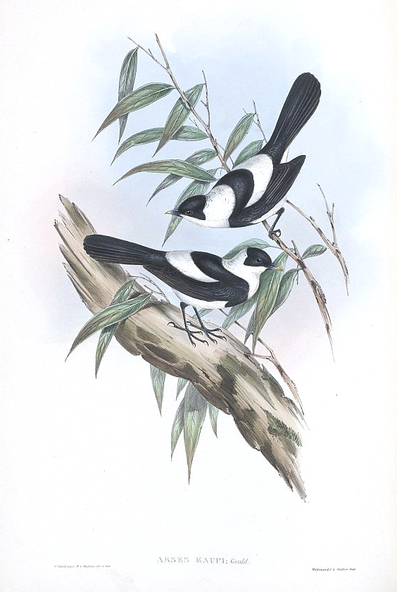 Arses kaupi by John Gould (or Elizabeth Gould)